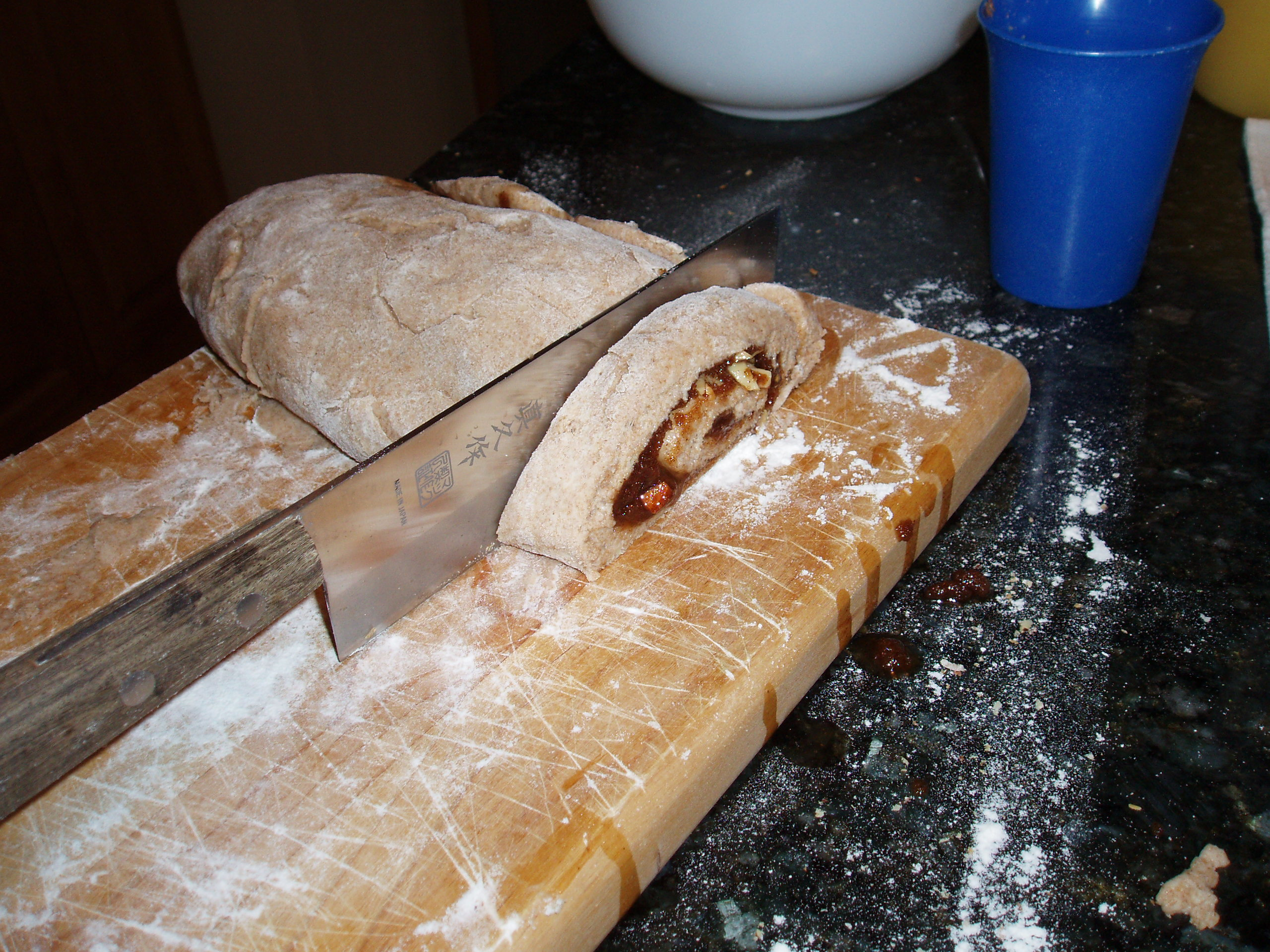 A 'loaf' of raw cinnamon roll dough being cut into individual rolls prior to being cooked. Took (and made!) this myself.